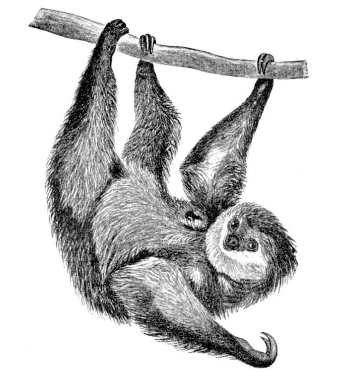 Fig. 96.—Unau, or Two-toed Sloth. Choloepus didactylus. × 1⁄5. (After Vogt and Specht.)